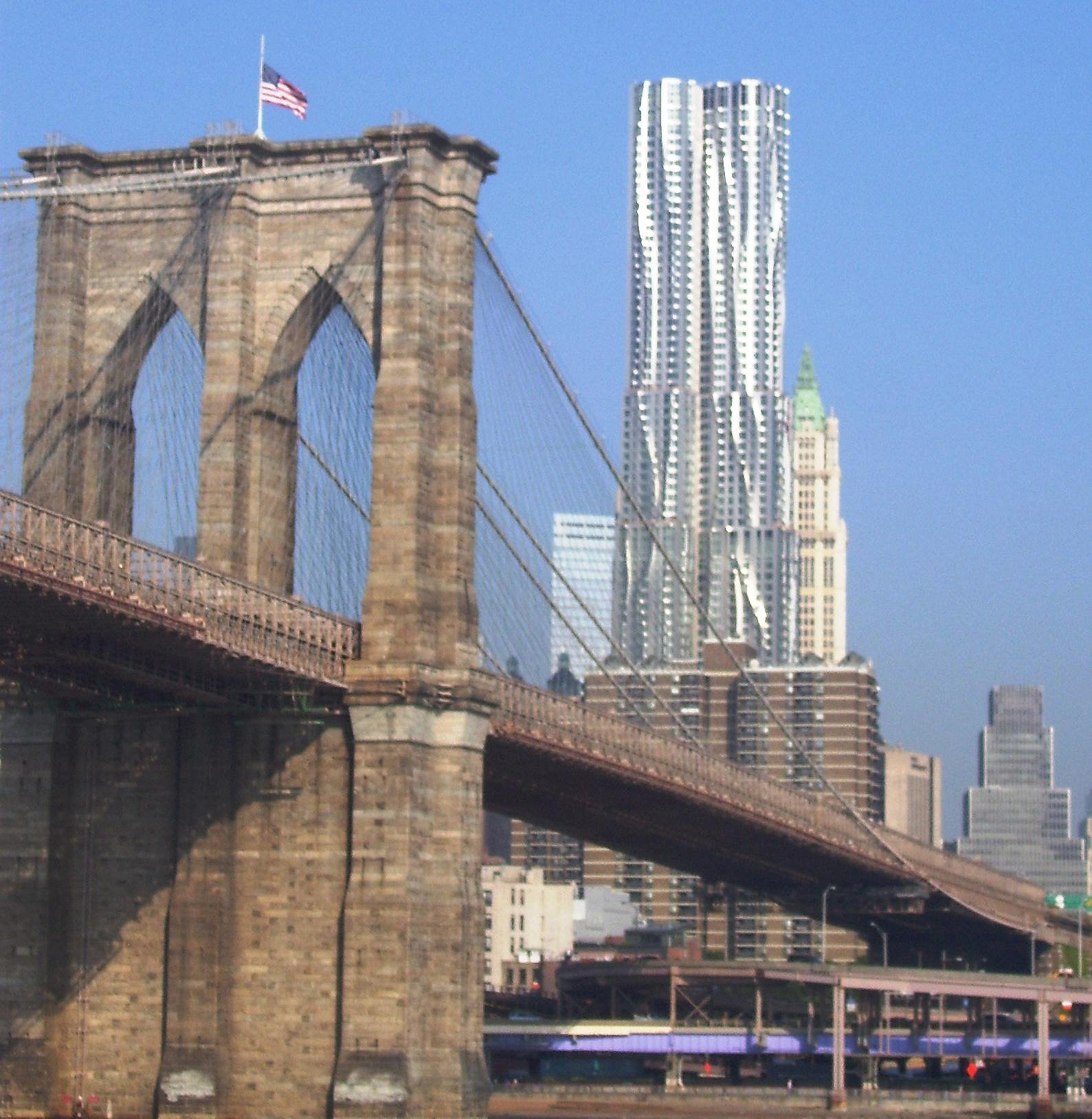 The Manhattan tower of the Brooklyn Bridge, with Frank Gehry's Beekman Tower (8 Spruce Street in downtown Manhattan, New York City) behind it, as seen from the East River.